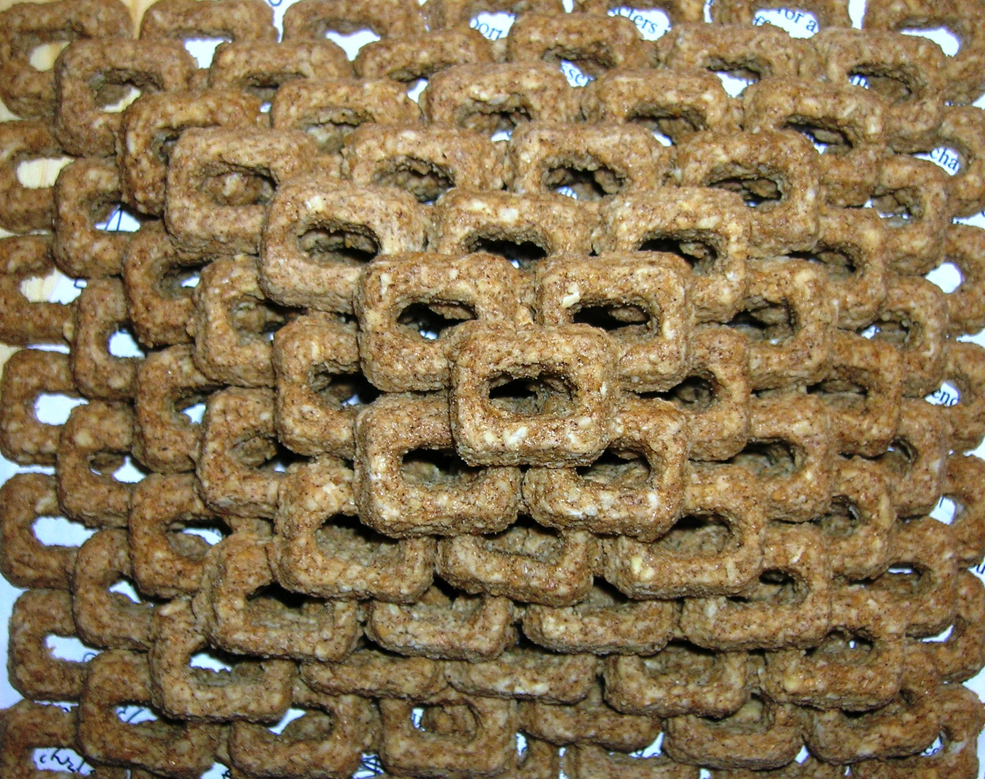 Cracklin' Oat Bran is a breakfast cereal introduced in 1977 by Kellogg's. The cereal is made of oat bran flavored with cinnamon and nutmeg, and held together by brown sugar in the form of a rectangle.